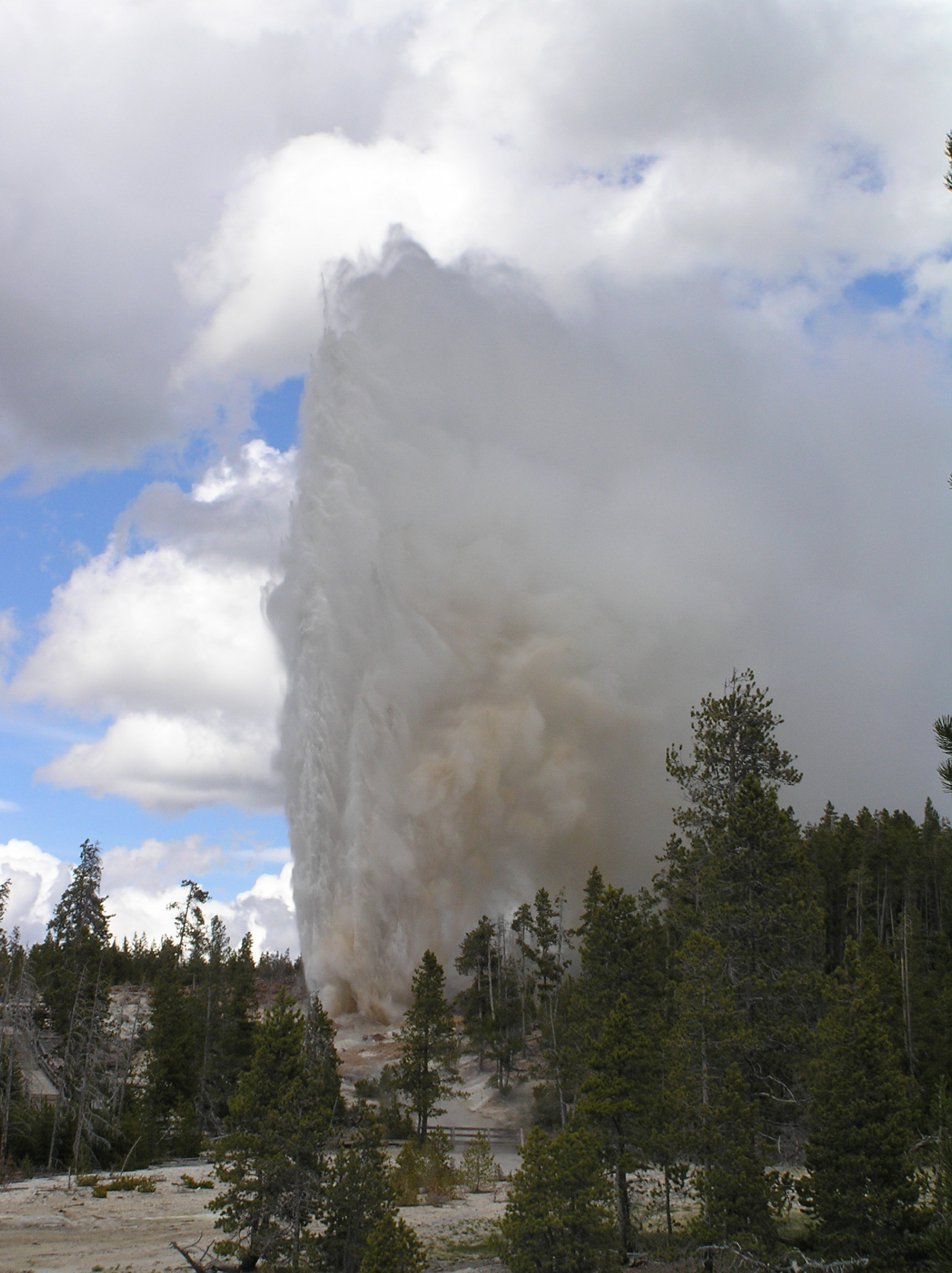 The world’s tallest active geyser, Steamboat, erupted at approximately 2:40 p.m. on May 23, 2005 after an almost two-year hiatus.